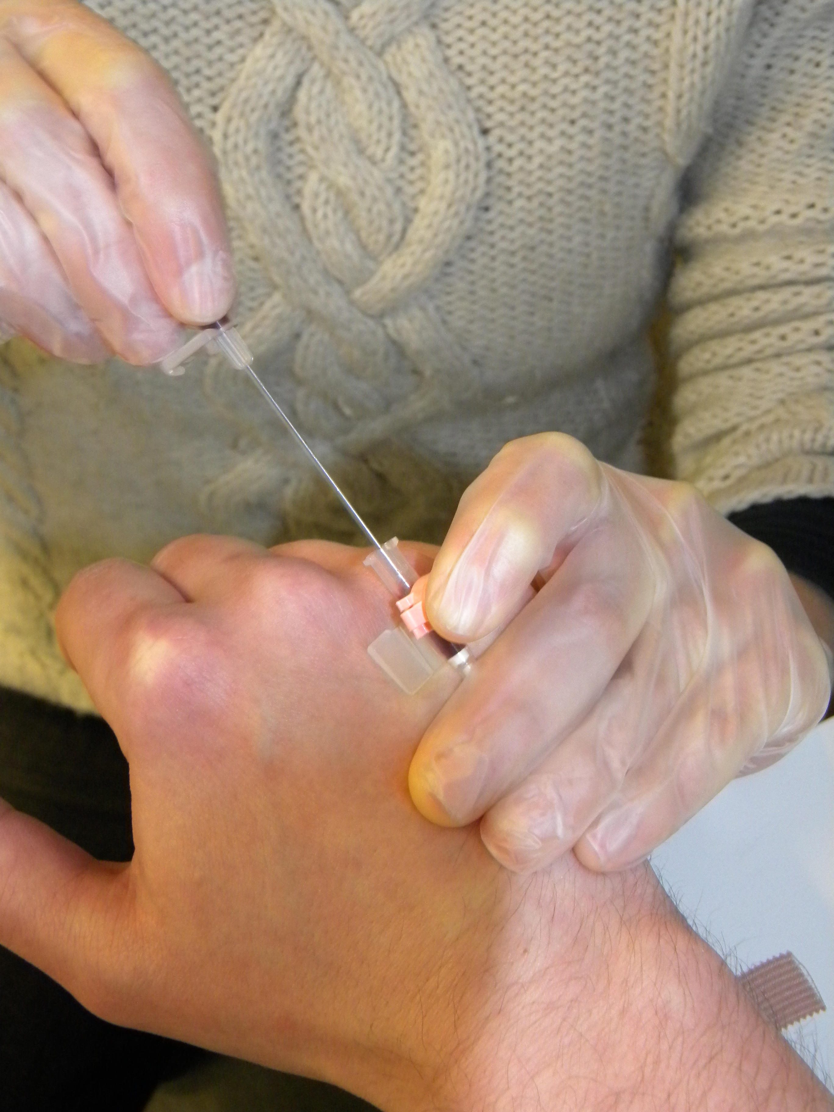 One finger keeps the intravenous cannula fixed and another presses the vein while taking of the trocar. Reclaimer: The picture is taken in a training situation and may not totally refer to an actual situation. The picture may contain faults in IV cannulation, and the picture itself does not necessarily describe the proper IV cannulation. The author does not take any responsibility if any medical prosedure is failed or done in an improper manner.